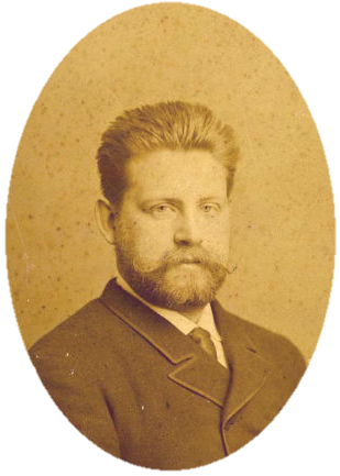 Alfredo Keil (1850-1907), Portuguese composer, painter, poet, archeologist and art collector.